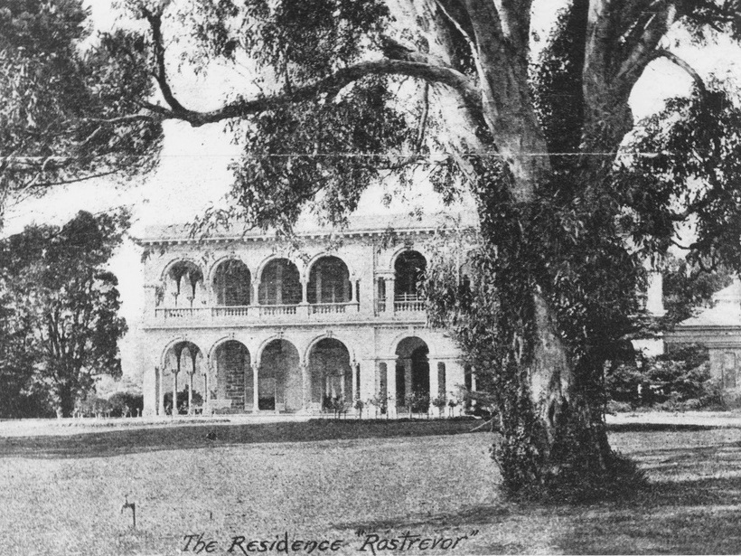 Original owner Ross T. Reid, substantially renovated c. 1890 by (unrelated) J. S. Reid, to resemble "Romsdal", Toorak, Victoria.